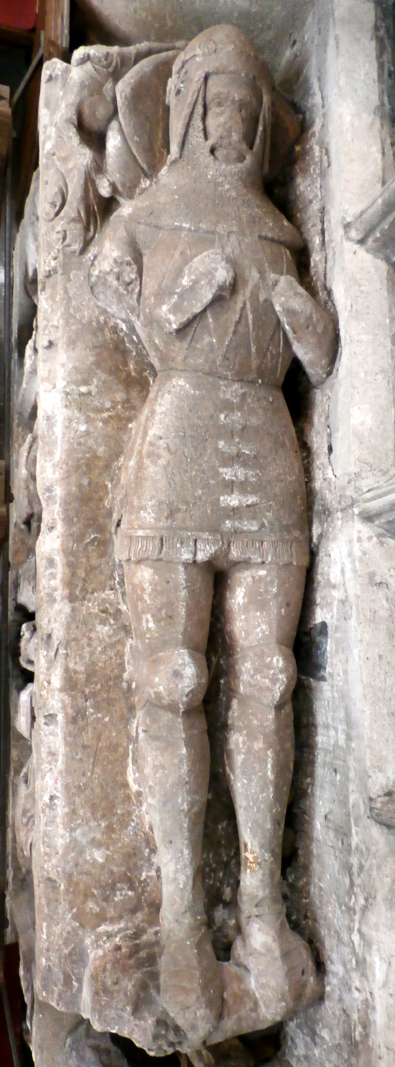 Effigy of Sir John III Dinham (1359-1428), of Kingskerswell, on window ledge of north aisle, St Mary's Church, Kingskerswell, Devon. Effigies of two of his three wives also exist on other window ledges in the north aisle. (Chope, R. Pearse, The Book of Hartland, Torquay, 1940, Chapter V, pp.26-37, The Dynham Family, p.30) None in original positions.